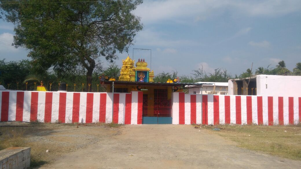 temple